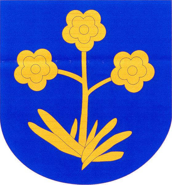 Coat of arms of the village of Jevišovka , Czech Republic.